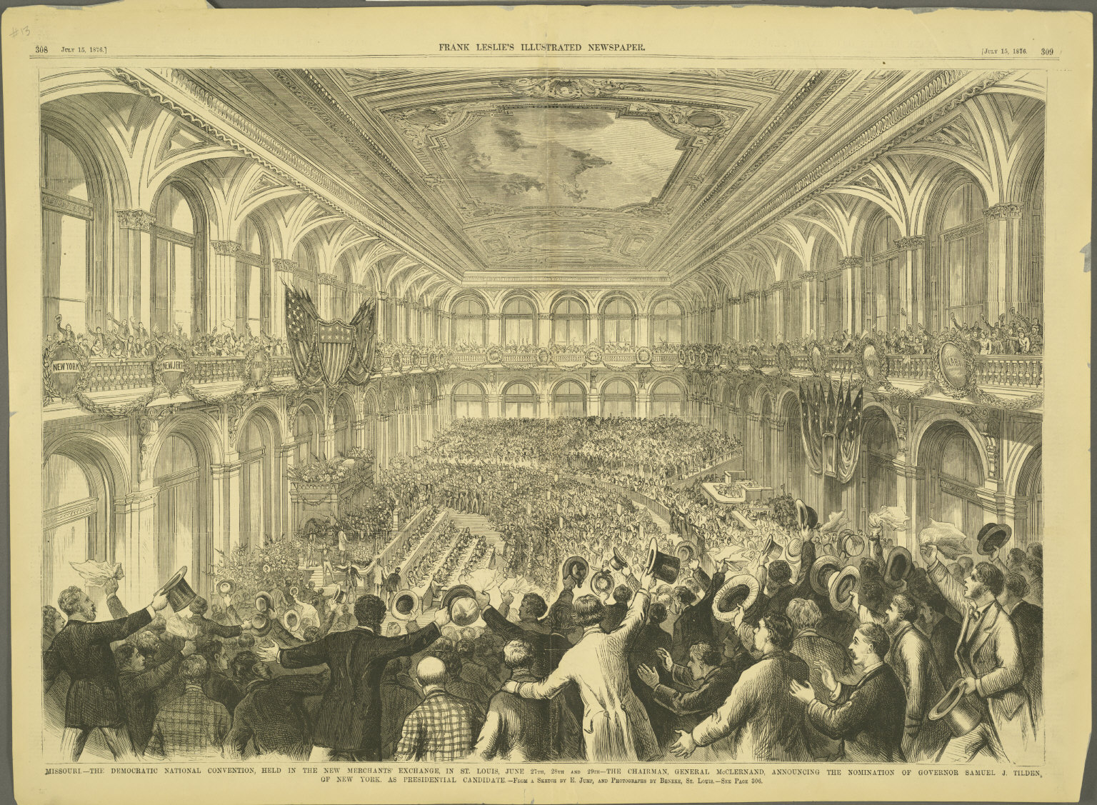 Collection: Cornell University Collection of Political Americana, Cornell University Library Repository: Susan H. Douglas Political Americana Collection, #2214 Rare & Manuscript Collections, Cornell University Library, Cornell University Title: Missouri - The Democratic National Convention Political Party: Democratic Election Year: 1876 Date Made: 1876 Measurement: Sheet: 16 x 21.75 in.; 40.64 x 55.245 cm Classification: Publications Persistent URI: There are no known U.S. copyright restrictions on this image. The digital file is owned by the Cornell University Library which is making it freely available with the request that, when possible, the Library be credited as its source.